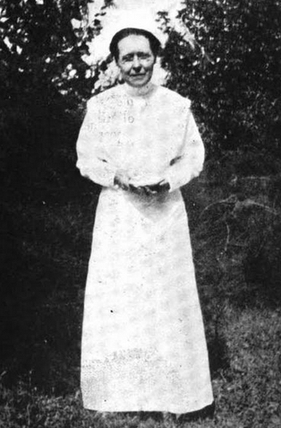 Black-and-white head-to-toe photograph of a white woman, standing outdoors in a white nurse's uniform with a long skirt, from 1921.